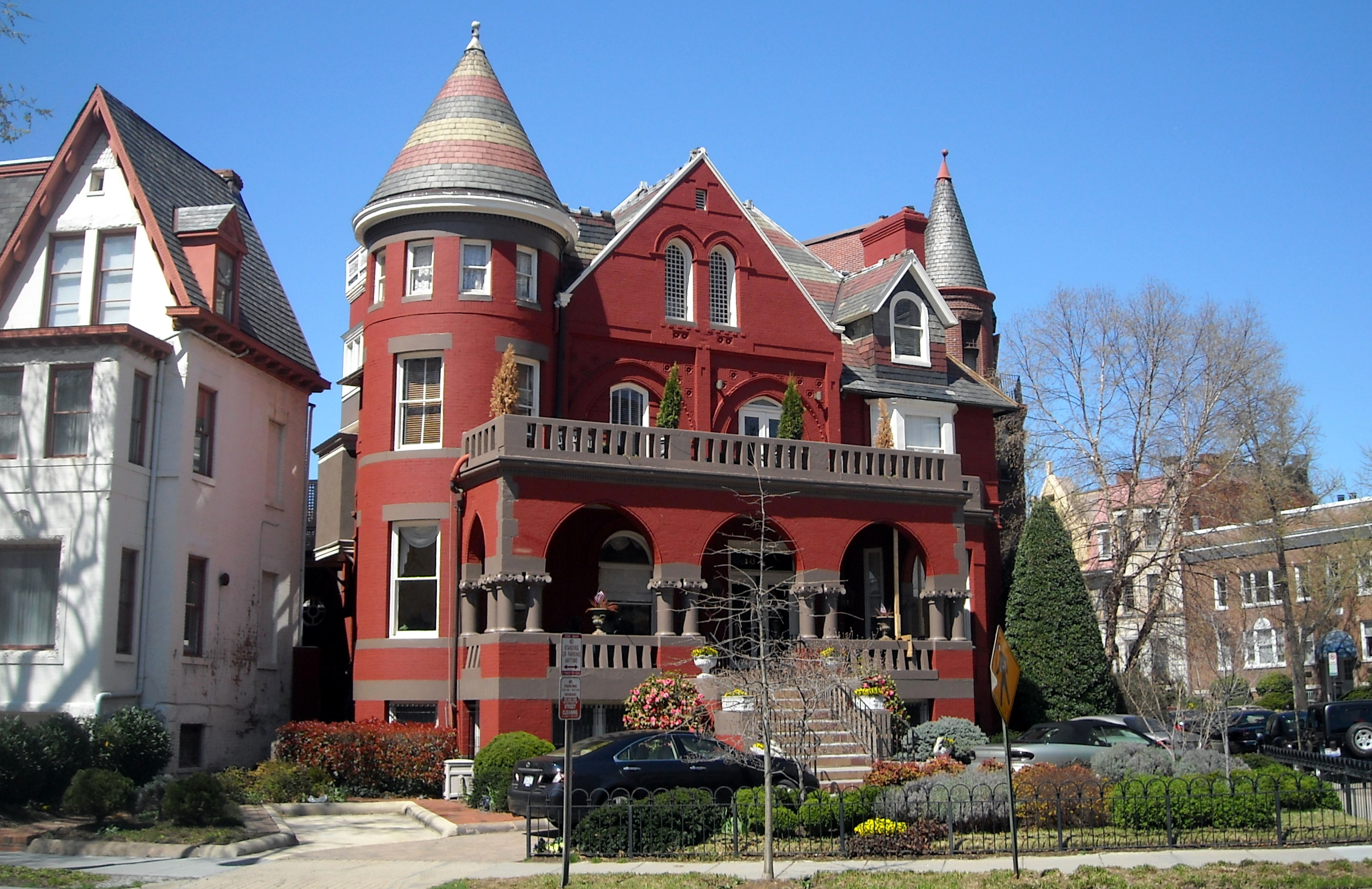 The Swann House bed and breakfast (innkeepers – Mary Lotto Ross and Rick Verkler), located at 1808 New Hampshire Avenue, N.W., in the Dupont Circle neighborhood of Washington, D.C. Built in 1883 (total cost of construction – $18,000) for Walter Paris, an architect and artist, the building reflects a combination of the Queen Anne and Richardsonian Romanesque architectural styles. In addition to the original and current owners, previous occupants include Colonel Theodore W. Tyrer, Eva Roberts Cromwell (the widow of Oliver Eaton Cromwell; her marriage to Edward T. Stotesbury in 1912 took place at the New Hampshire Avenue property; wedding guests included U.S. President William Howard Taft, First Lady Helen Herron Taft, and J. P. Morgan), David F. Houston, Edward Philip Farley (chairman of the U.S. Shipping Board), Edith Cummings, George A. Garrett, and a large number of residents when the property operated as a boarding house from the 1940s–1990s. The Swann House is designated as a contributing property to the Dupont Circle Historic District, listed on the National Register of Historic Places in 1978.